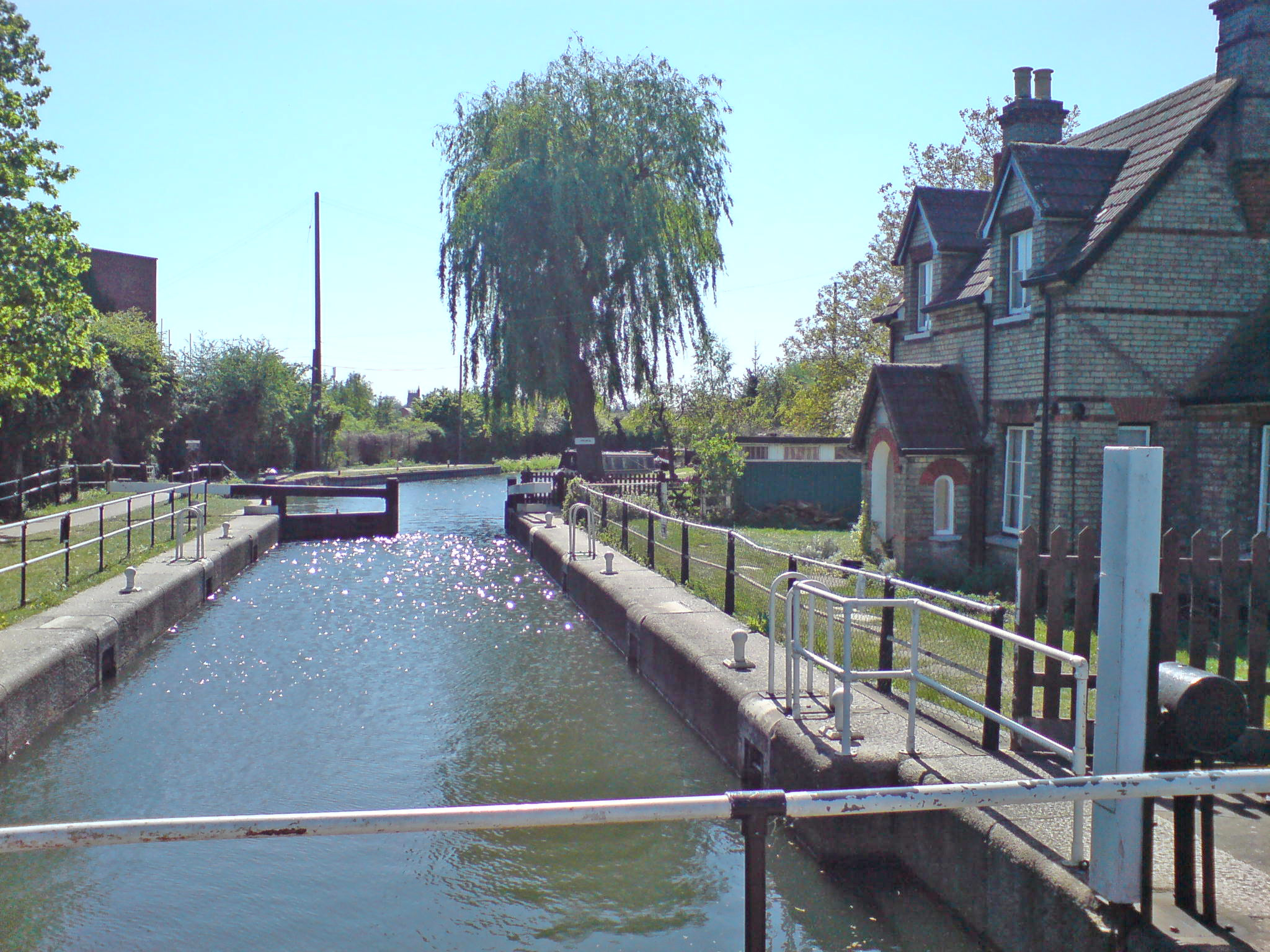 Author: Jamsta